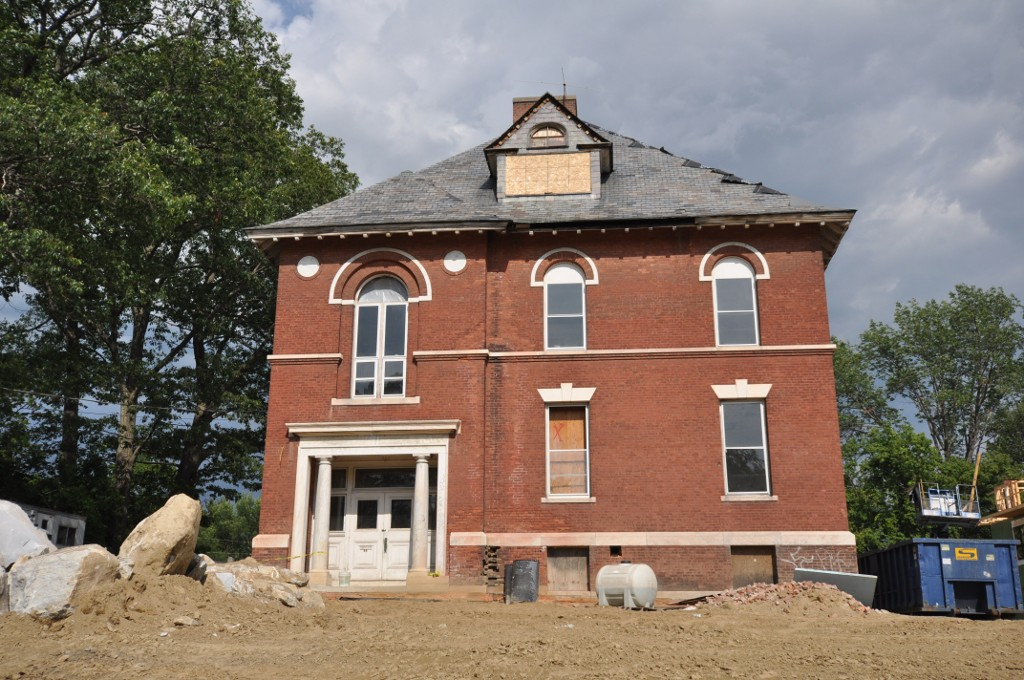 Watkins School, Rutland, Vermont. Undergoing conversion to residential use.